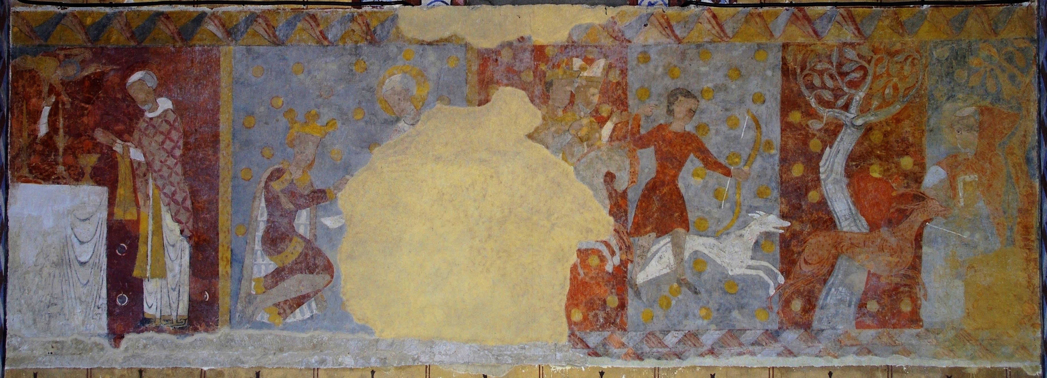 Fresco representing three episodes of Saint Gilles' life. Church Saint-Nicolas de Civray, Vienne, France.